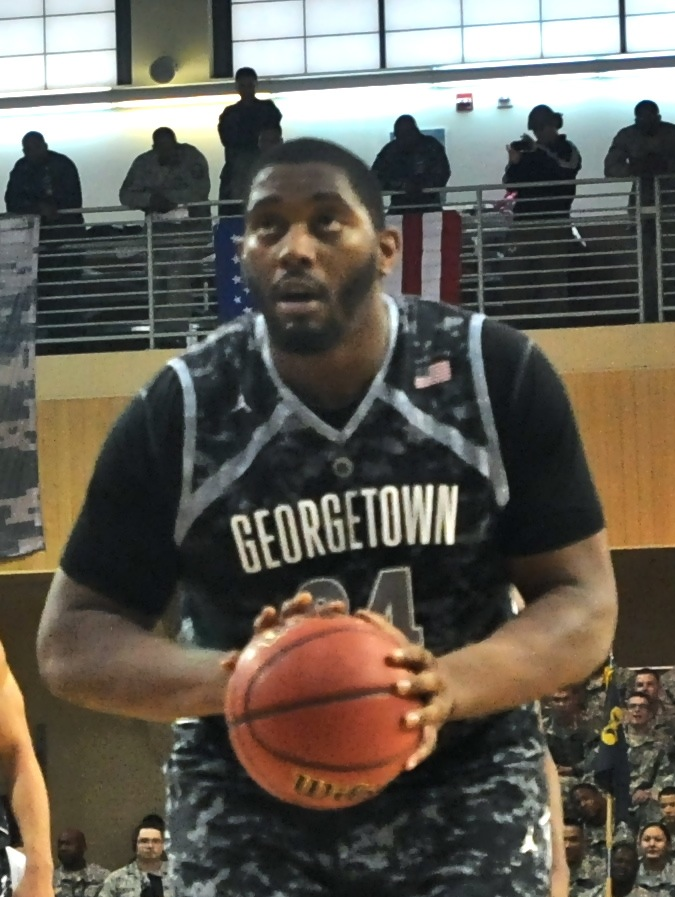 Joshua Smith of Georgetown Hoyas at ESPN Armed Forces Classic